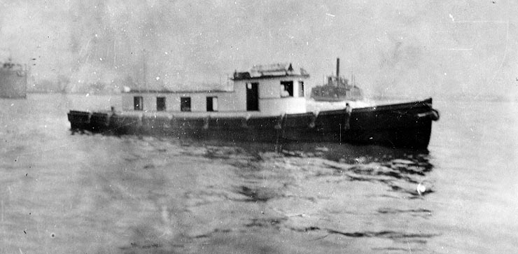 The civilian motorboat Hurst prior to her US Navy service as the patrol vessel USS Hurst (SP-3196).